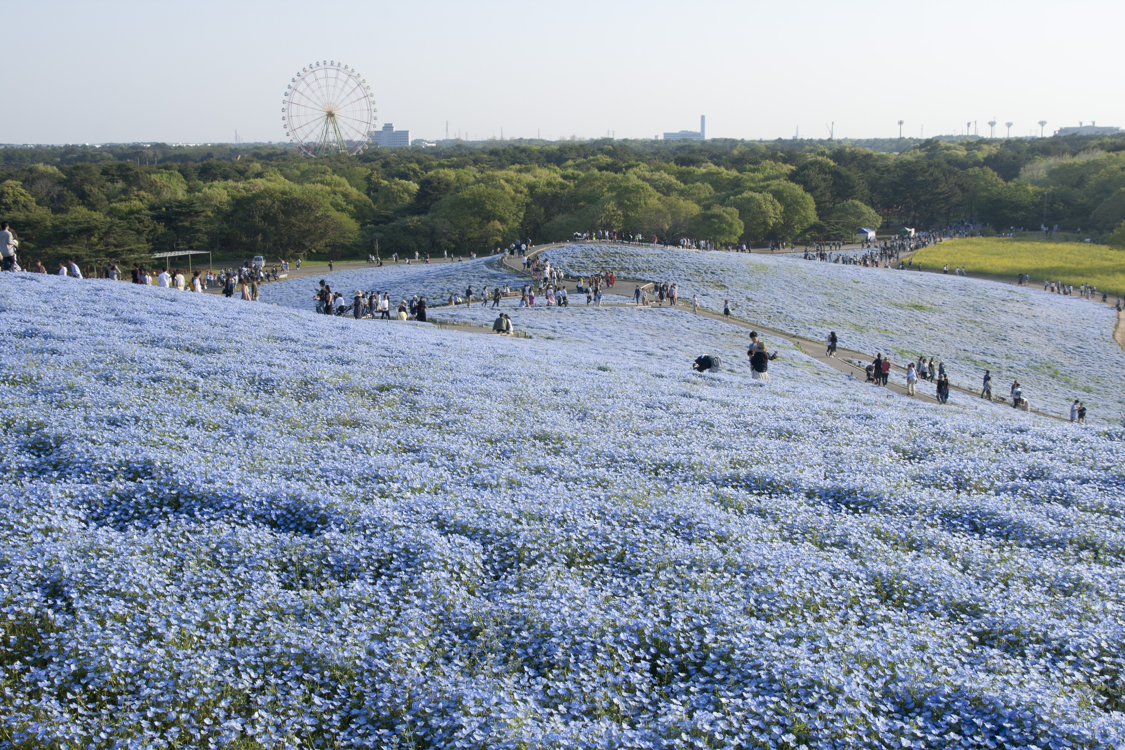 Baby blue eyes garden of Miharashi-no-oka in Hitachi Seaside Park, Hitachinaka City, Ibaraki Pref., Japan